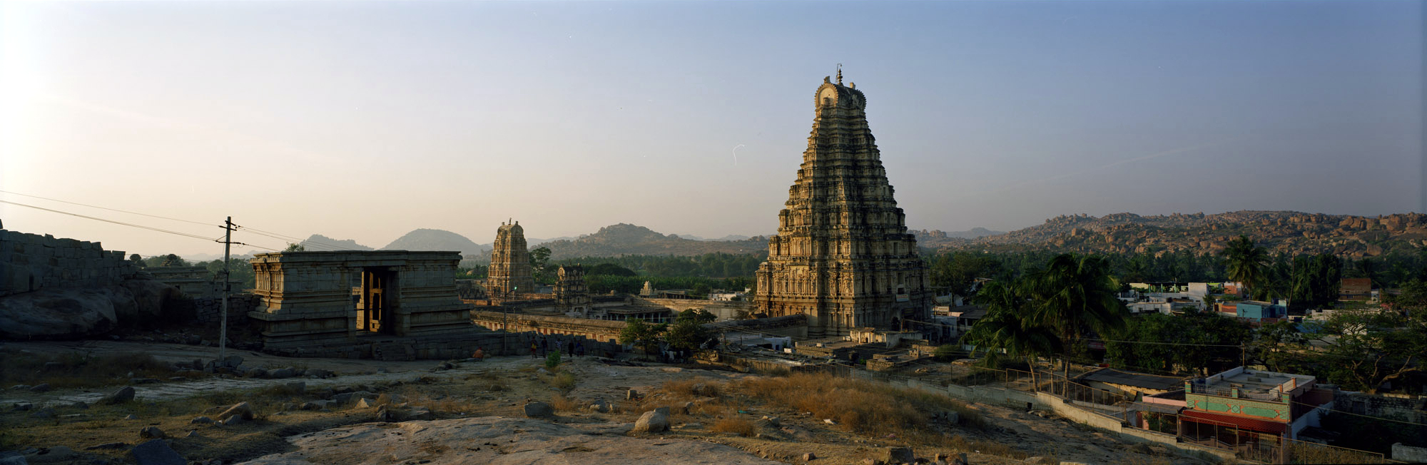 Hampi evening